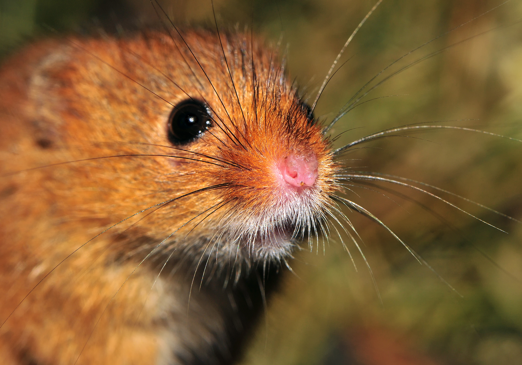 Harvest Mouse in the Zoo in the city of Dresden in Germany.